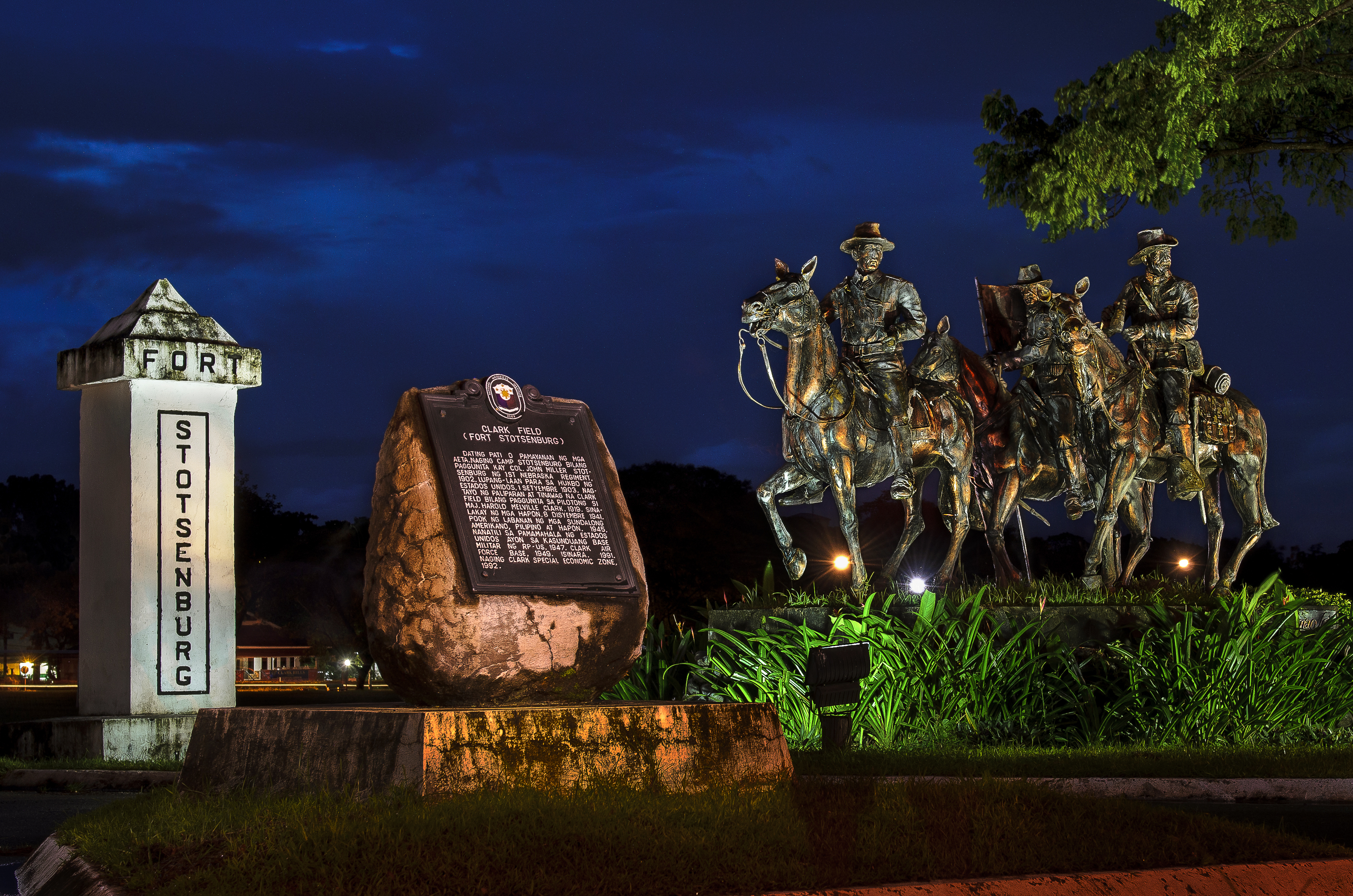 Fort Stotsenberg